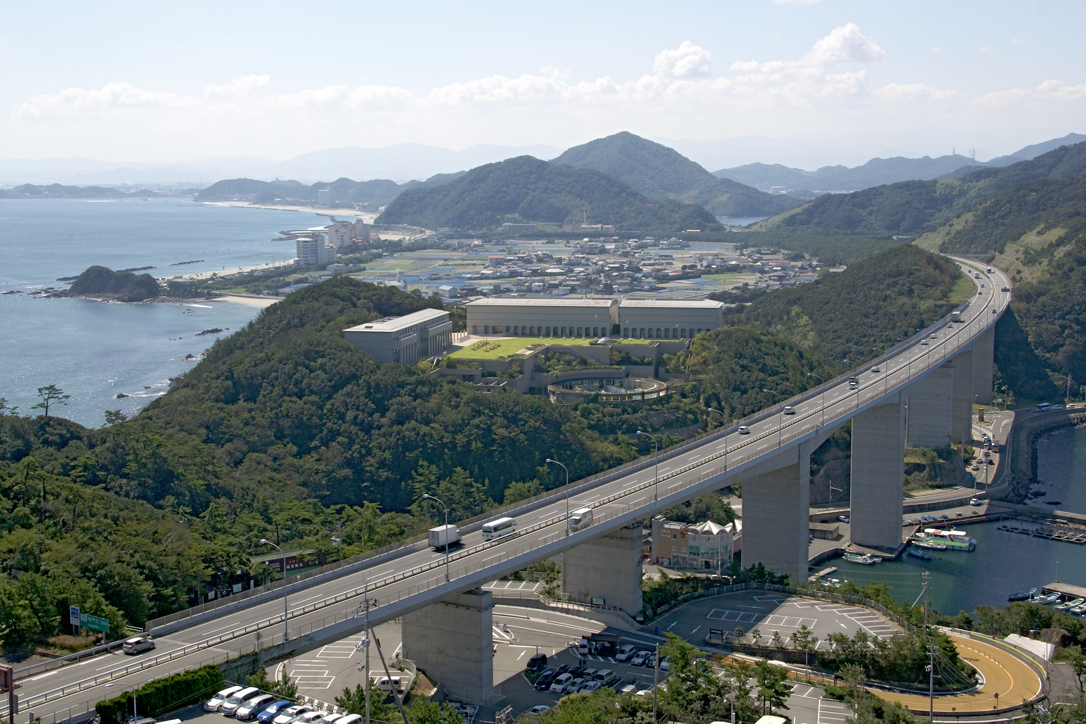 Kobe-Awaji-Naruto Expressway in Naruto, Tokushima prefecture, Japan